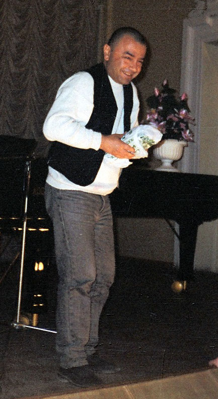 Rouben Hakhverdian My own photo